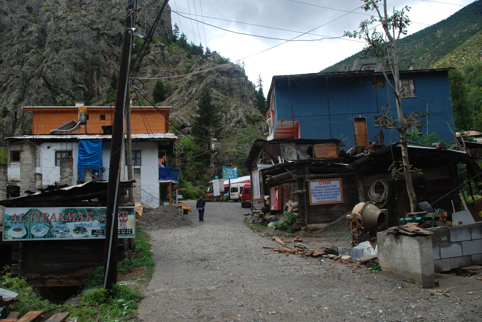 Barhal (Altiparmak), near Yusufeli, Artvin province